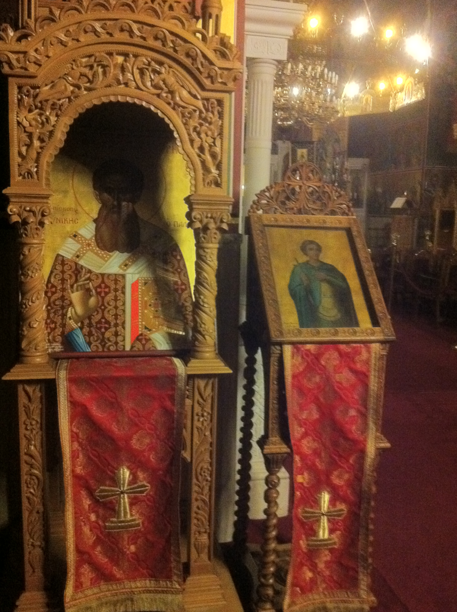 Icon of St. Gregory Palamas in an ornate wooden kiot, alongside is an analogion.